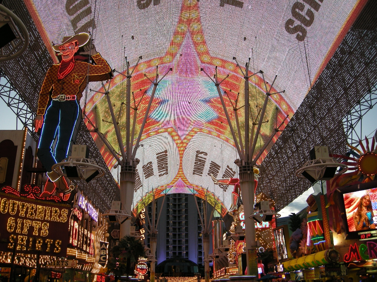 Fremont Street Experience, Las Vegas